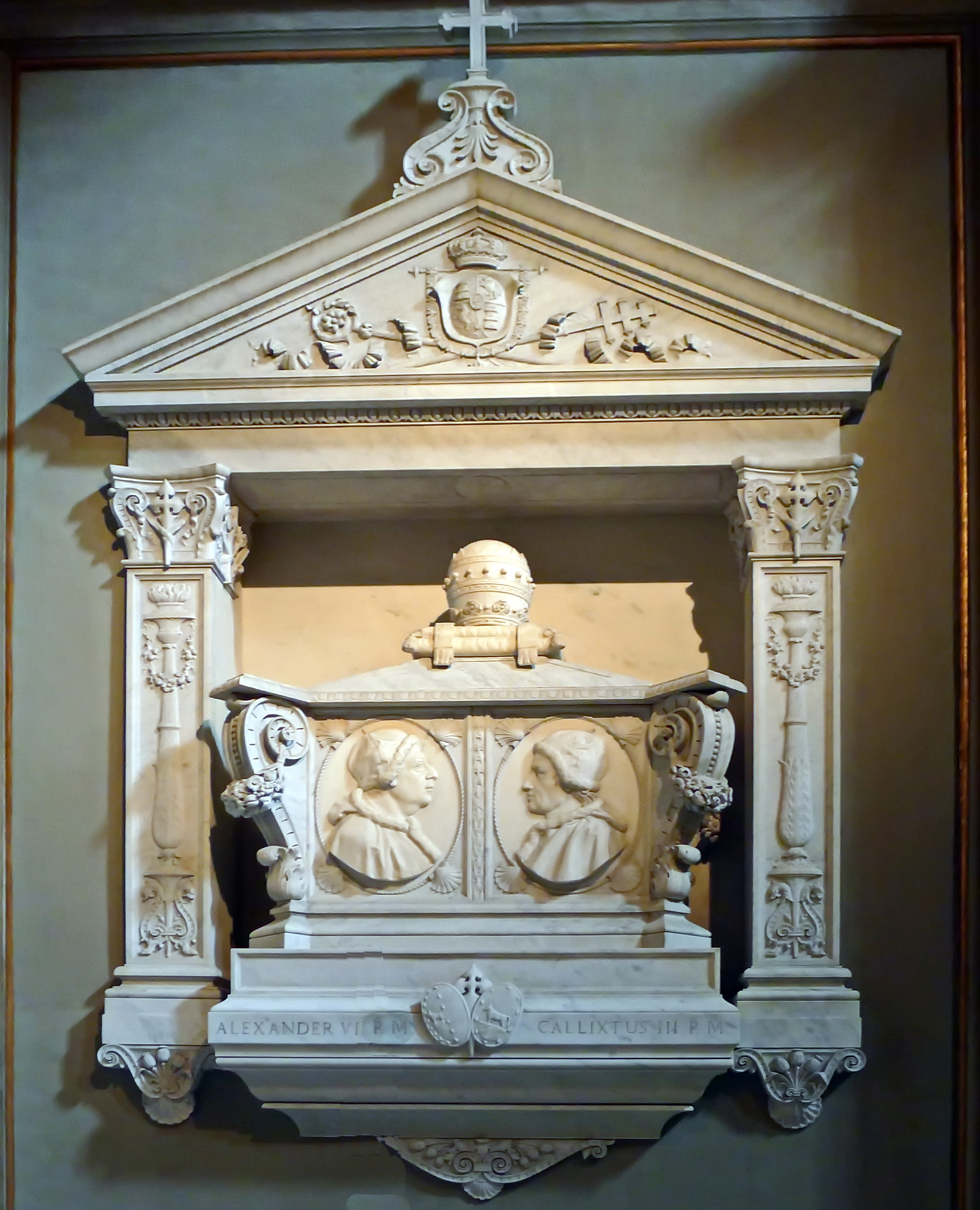 Santa Maria in Monserrato (Rome); Monument for the popes Callixtus III and Alexander VI